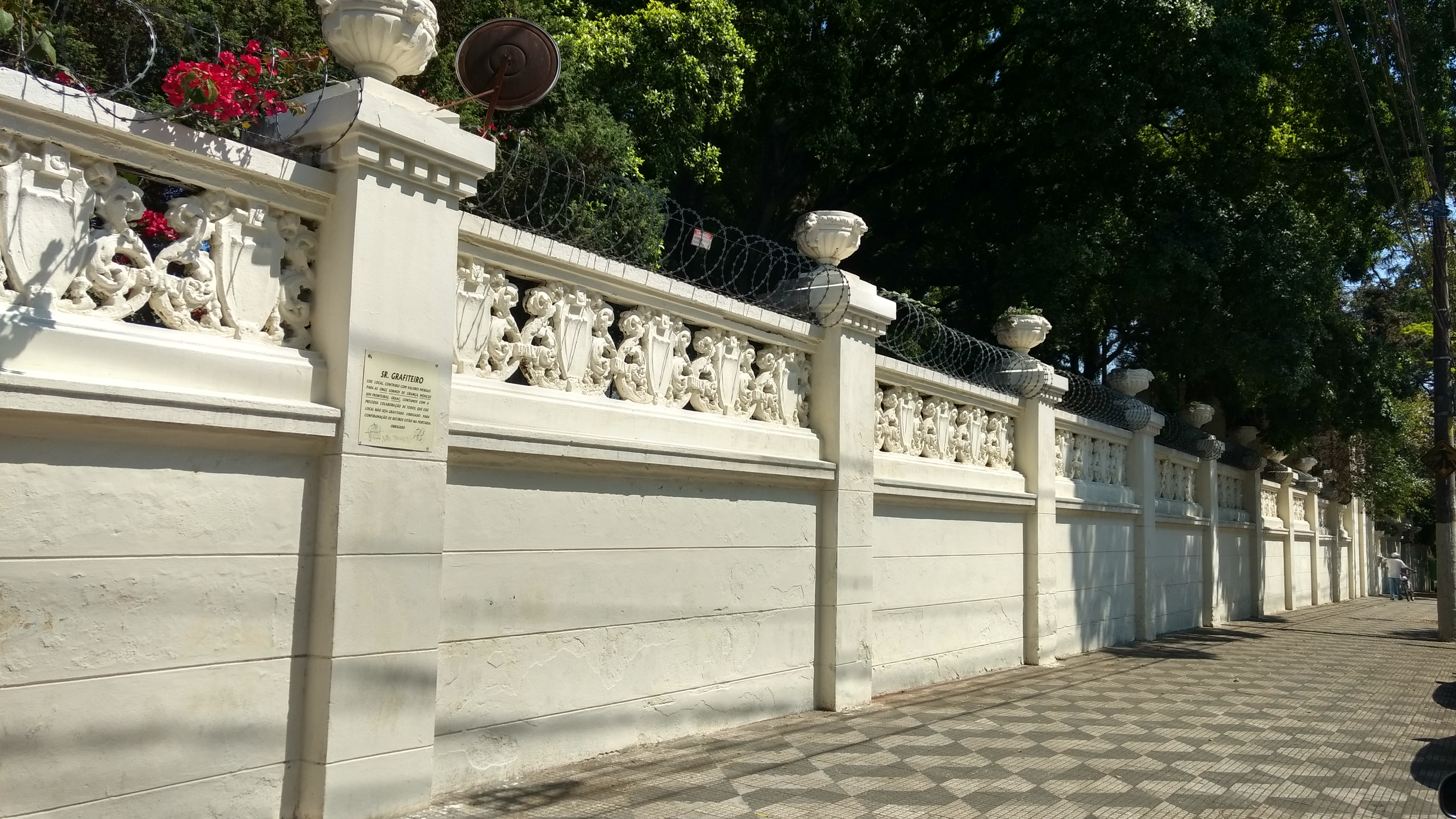 Muro com arame farpado da Residência da Família Jafet, 730, localizada na Rua Bom Pastor, Ipiranga, São Paulo.